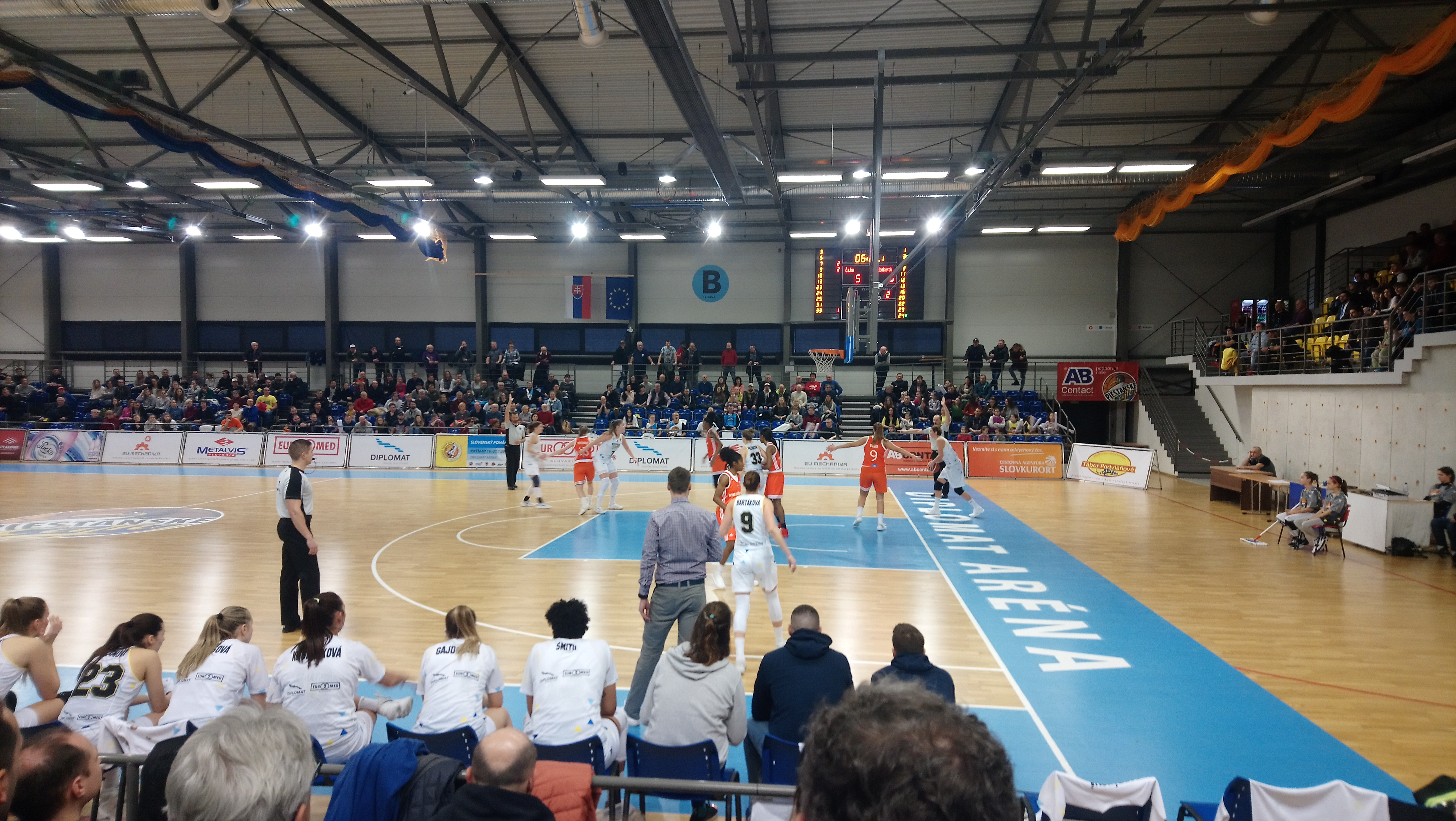 Piešťanské Čajky play in Diplomat aréna, Piešťany, Slovakia game against MBK Ružomberok.